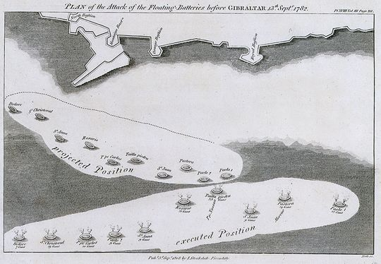 Plan of the Attack of the Floating-Batteries before Gibraltar 13th Septr 1782. Pl XVIII Vol III Page 212